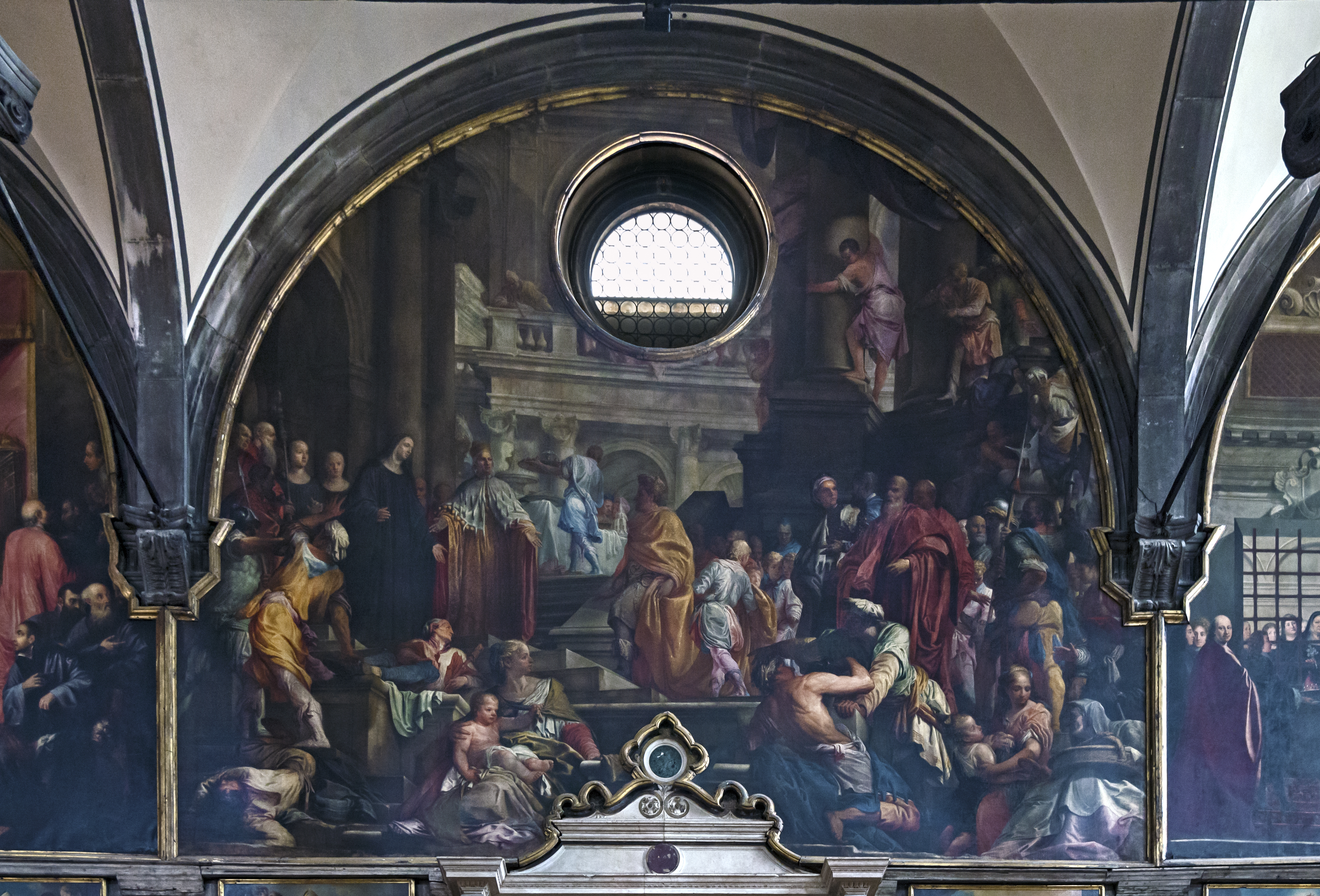 San Zaccaria, Venice - Visit to the San Zaccaria convent by Emperor Otto III accompanied by the Doge Pietro II Orseolo in 1001; or by Emperor Frederick III accompanied by Doge Cristoforo Moro in 1469. Painted by Gian Antonio Fumiani.